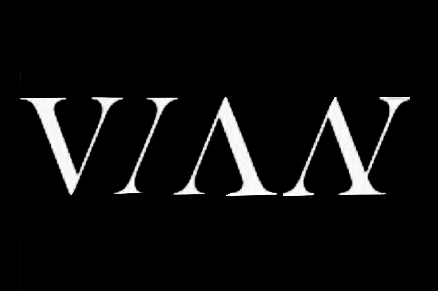 VIAN brand